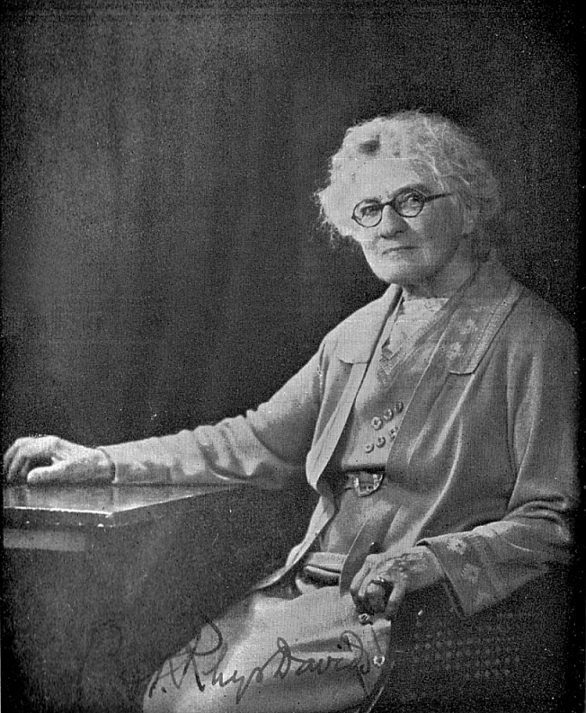 An image of the British Orientalist Caroline A. F. Rhys Davids.